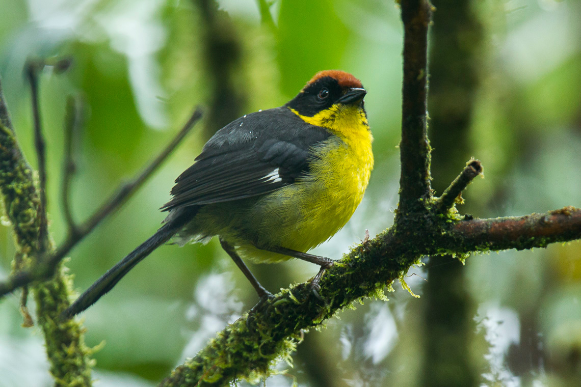 Rufous-naped Brush-Finch - South Ecuador_S4E1959